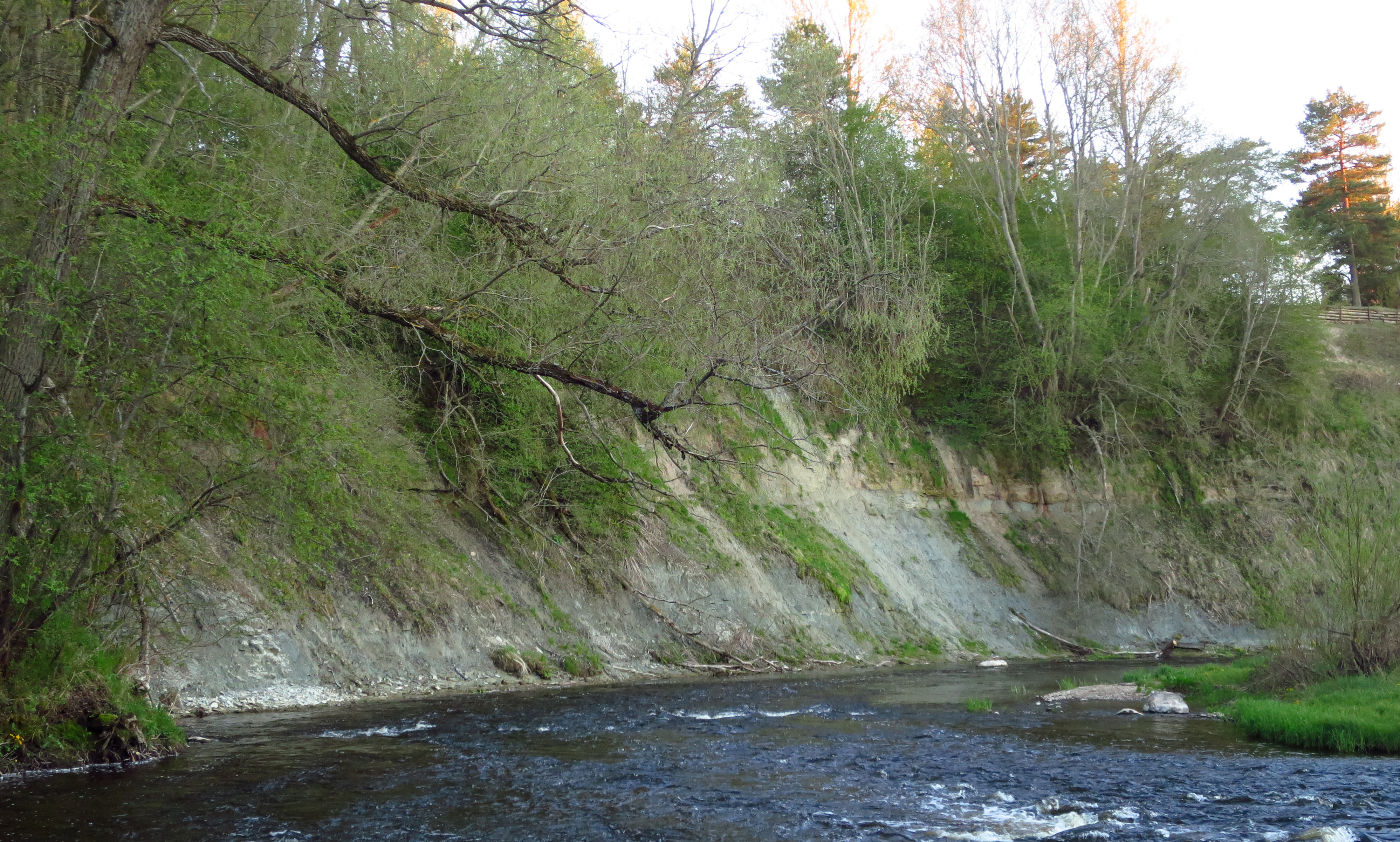 Lükati paljand Pirita jõeoru MKAl